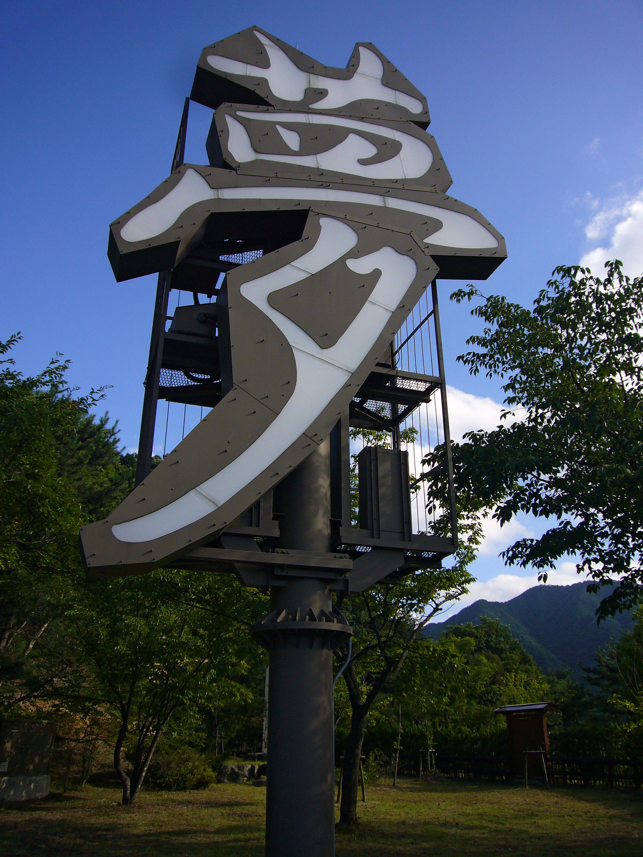 Seisho Park in Shinonsen, Hyogo prefecture, Japan